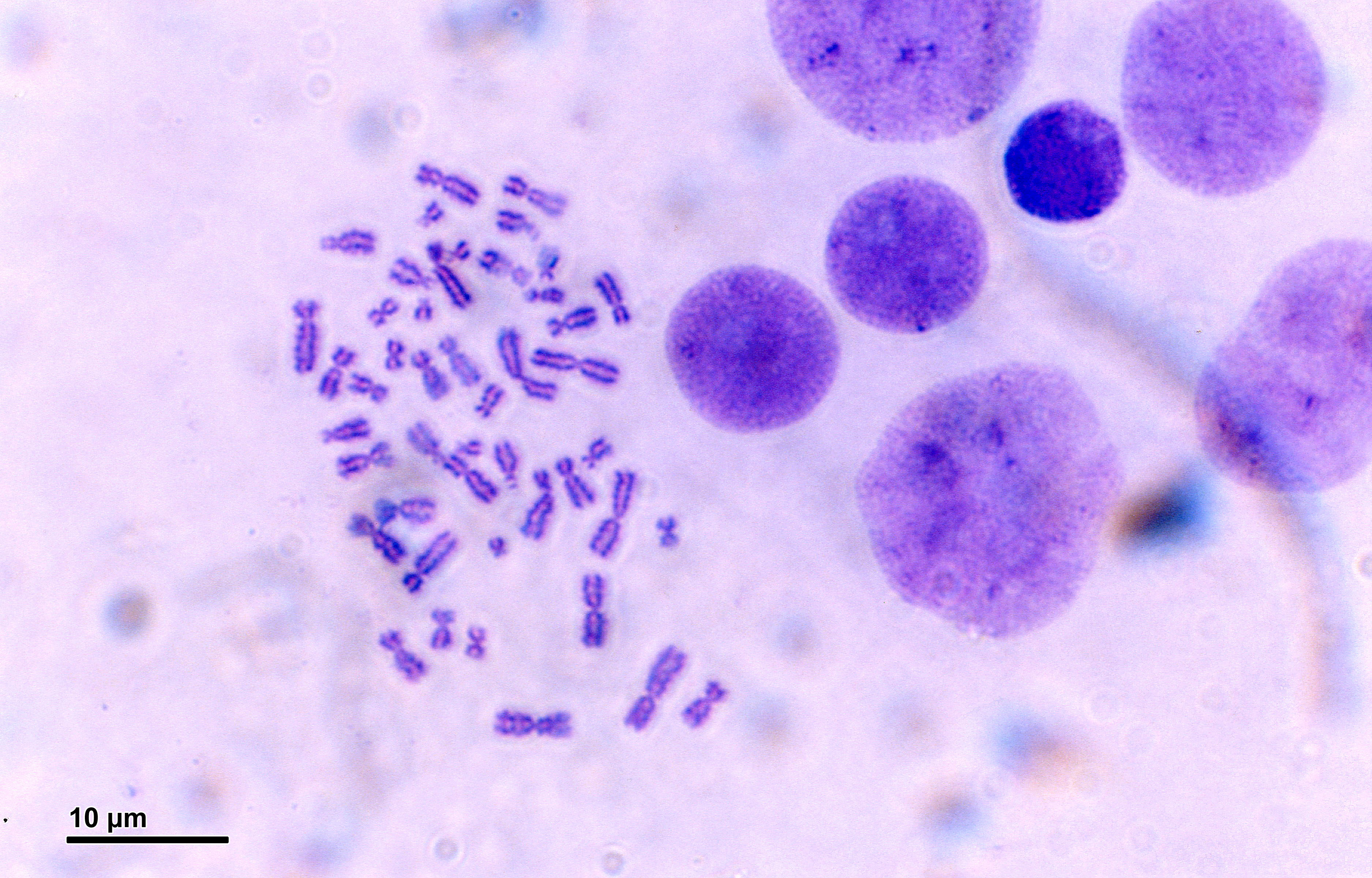 Human karyotype: Human karyotype. Optical microscopy technique: Bright field. Magnification: 3000x (for picture width 26 cm ~ A4 format).